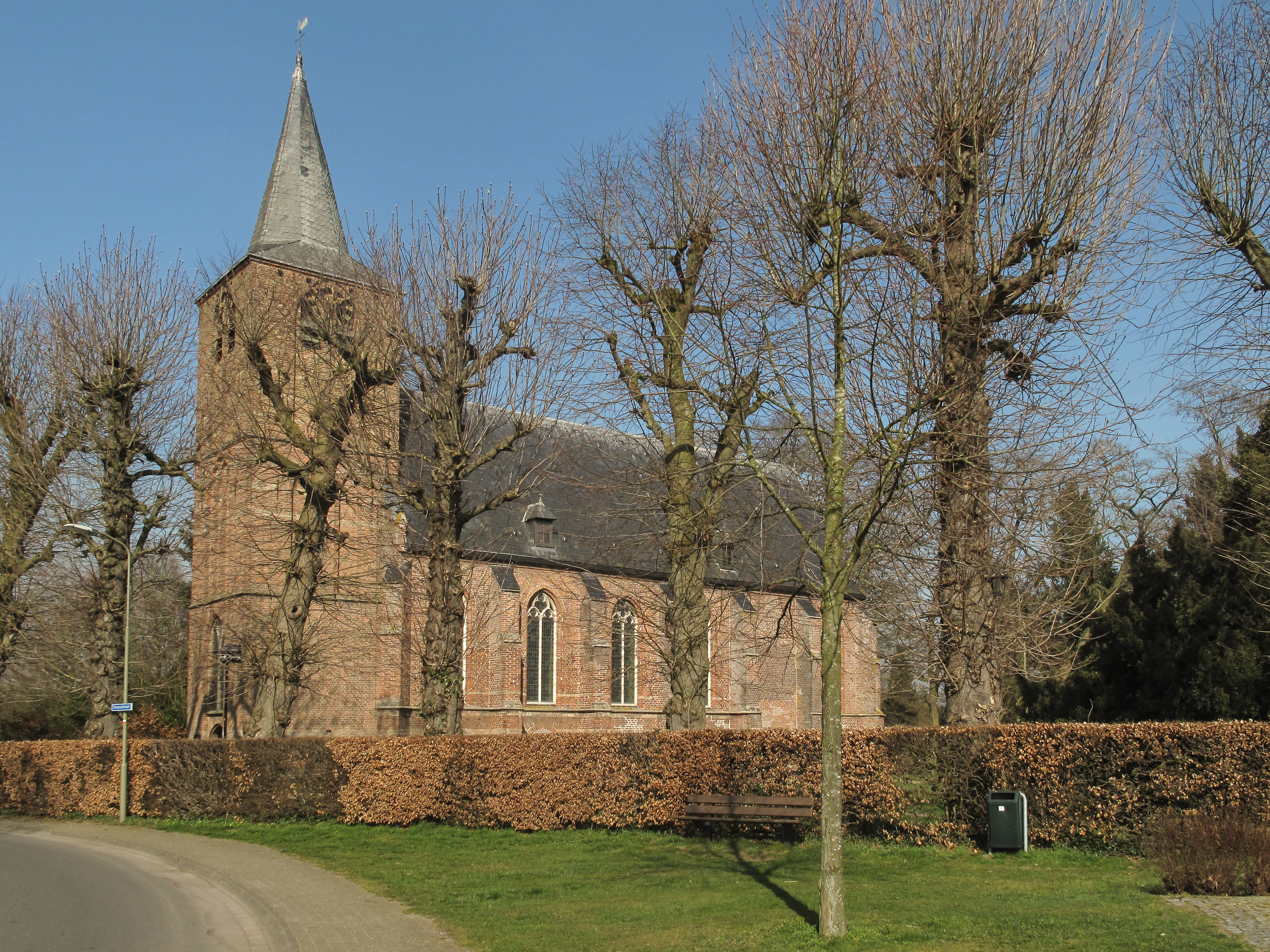 Hall, church: de Sint Ludgerkerk